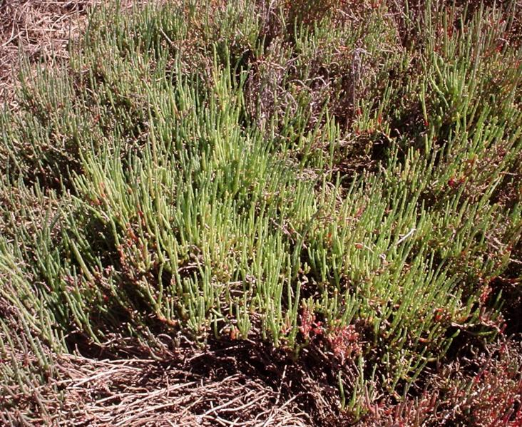 Tecticornia pergranulata (J.M.Black) K.A.Sheph. & Paul G.Wilson (Syn. Halosarcia pergranulata)